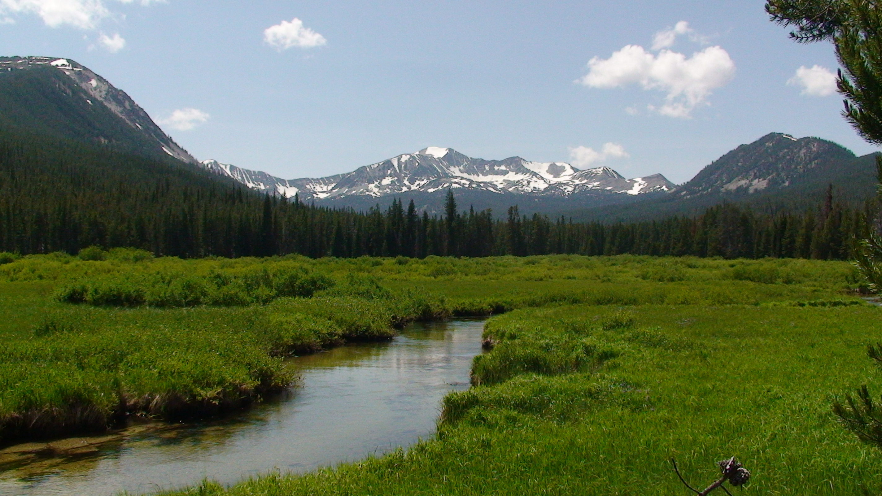 Berry Meadow in the Pioneer Mountains on the Beaverhead-Deerlodge National Forest. U.S. Forest Service photo by Amy Shovlain.